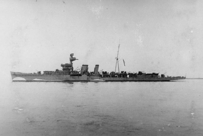 The Norwegian Campaign 1940- Naval Operations The British cruiser HMS CAIRO damaged by bombs during a bombardment of Narvik, 8 June 1940.